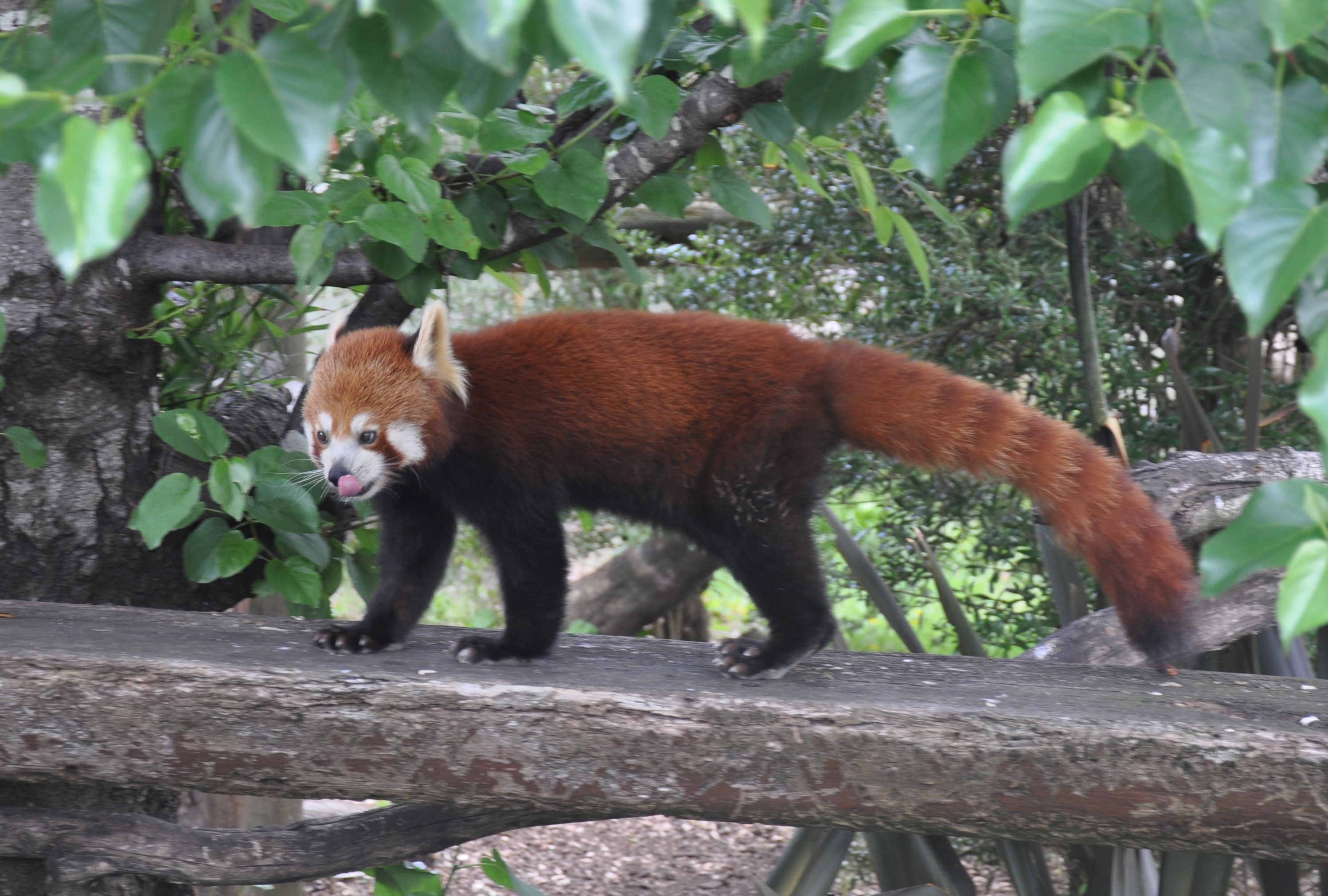 Panda roux zoo d'Auckland